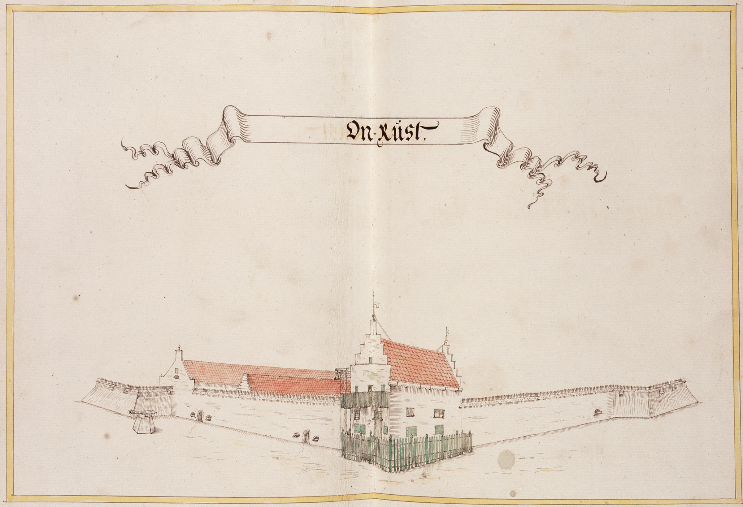 Title in the Leupe Catalogue (National Archives):Twee tekeningen van de volgens resolutie van gouverneur-Generaal en Raden van 12 mei 1656 op het eiland Onrust op te bouwen fortificatie. Note in the Leupe Catalogue tekening te vinden in VOC 677 onder de resoluties van 12 mei 1656. The entire page measures 40 x 49 centimetres.